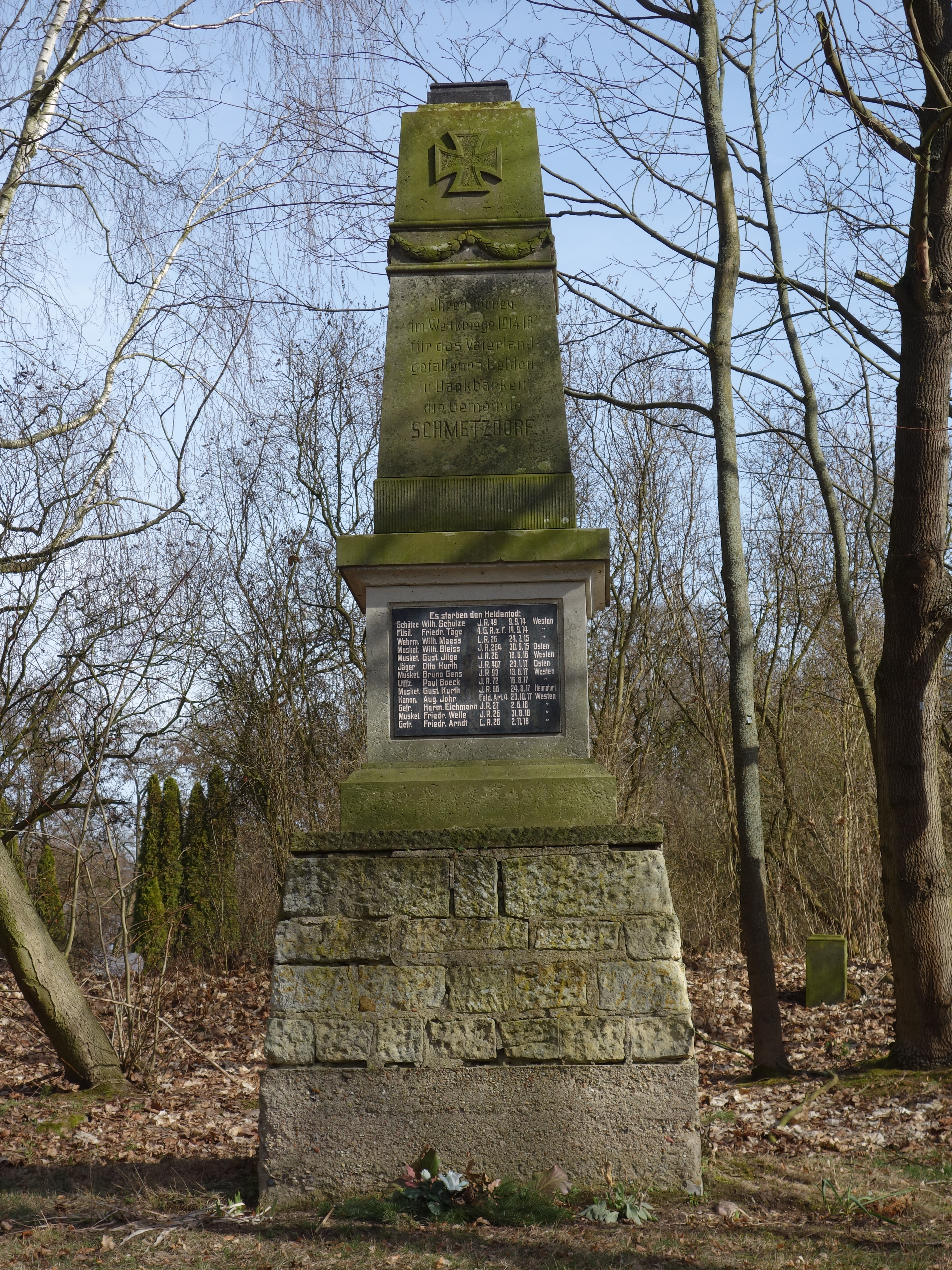 War memorial in Schmetzdorf, Milower Land municipality, Havelland district, Brandenburg state, Germany.